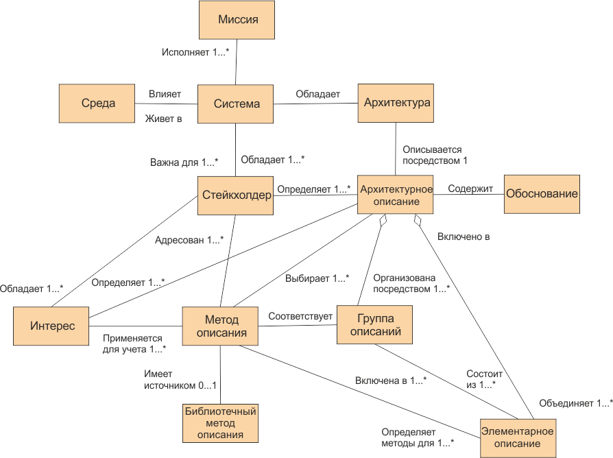 conceptual model architectural description